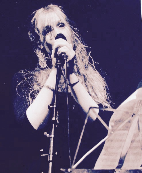 Picture of Elina Ryd, which I took summer 2013 in göterborgs jazz festival